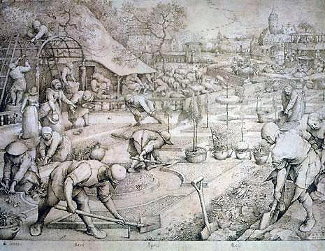 The Seasons - Spring